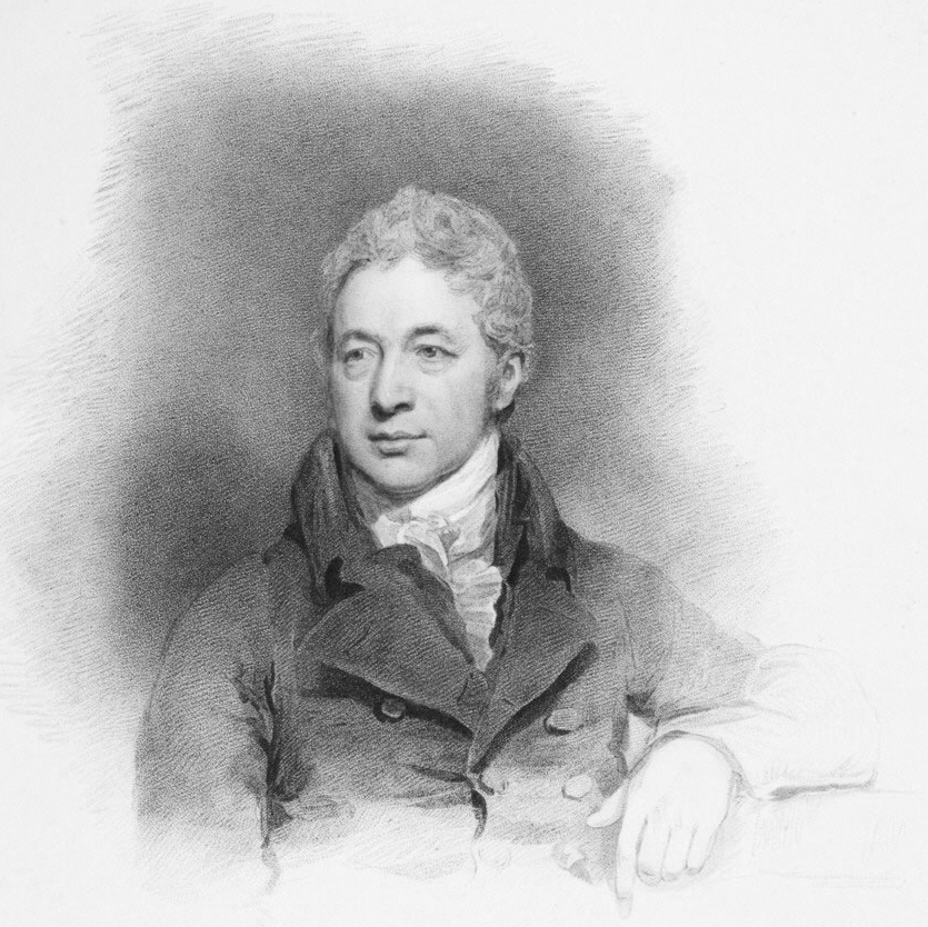 Robert Smirke (painter) stipple engraving 37.6 x 27.6 cm